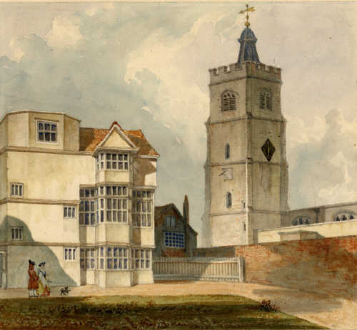 The Black and White House, rear view showing two gentlemen walking and the tower and part of the south wall of St John at Hackney church. Attributed to T.Fisher. Figures suggest that view is intended to be c 1750 but may well be c1790, before demolition of 1796. Watercolour. source The Learning Curve - Tudor Hackney